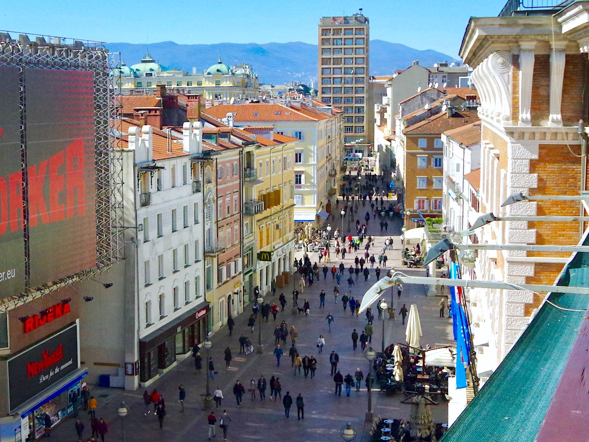 Korzo - the main street